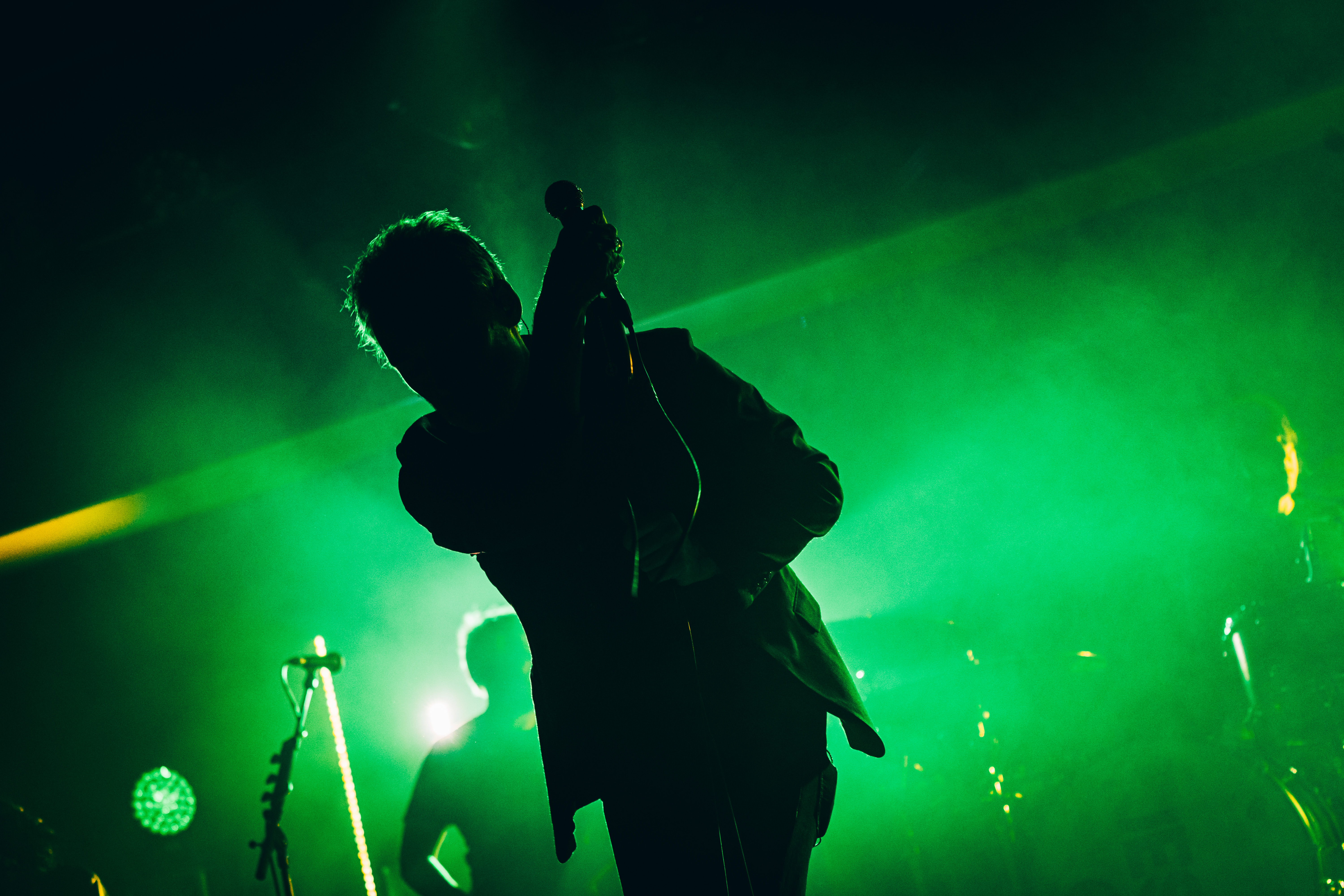 The Jesus and Mary Chain